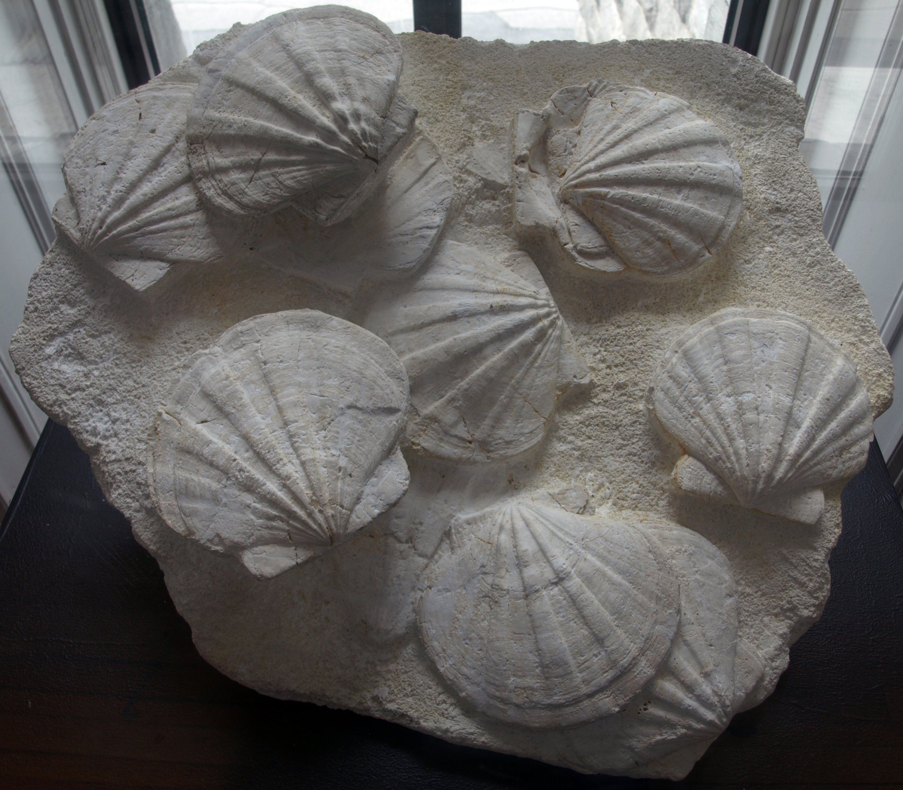 A collection of fossil scallops (possibly related to the "Lion's Paw scallop"), on display at the Redpath Museum, Montreal.